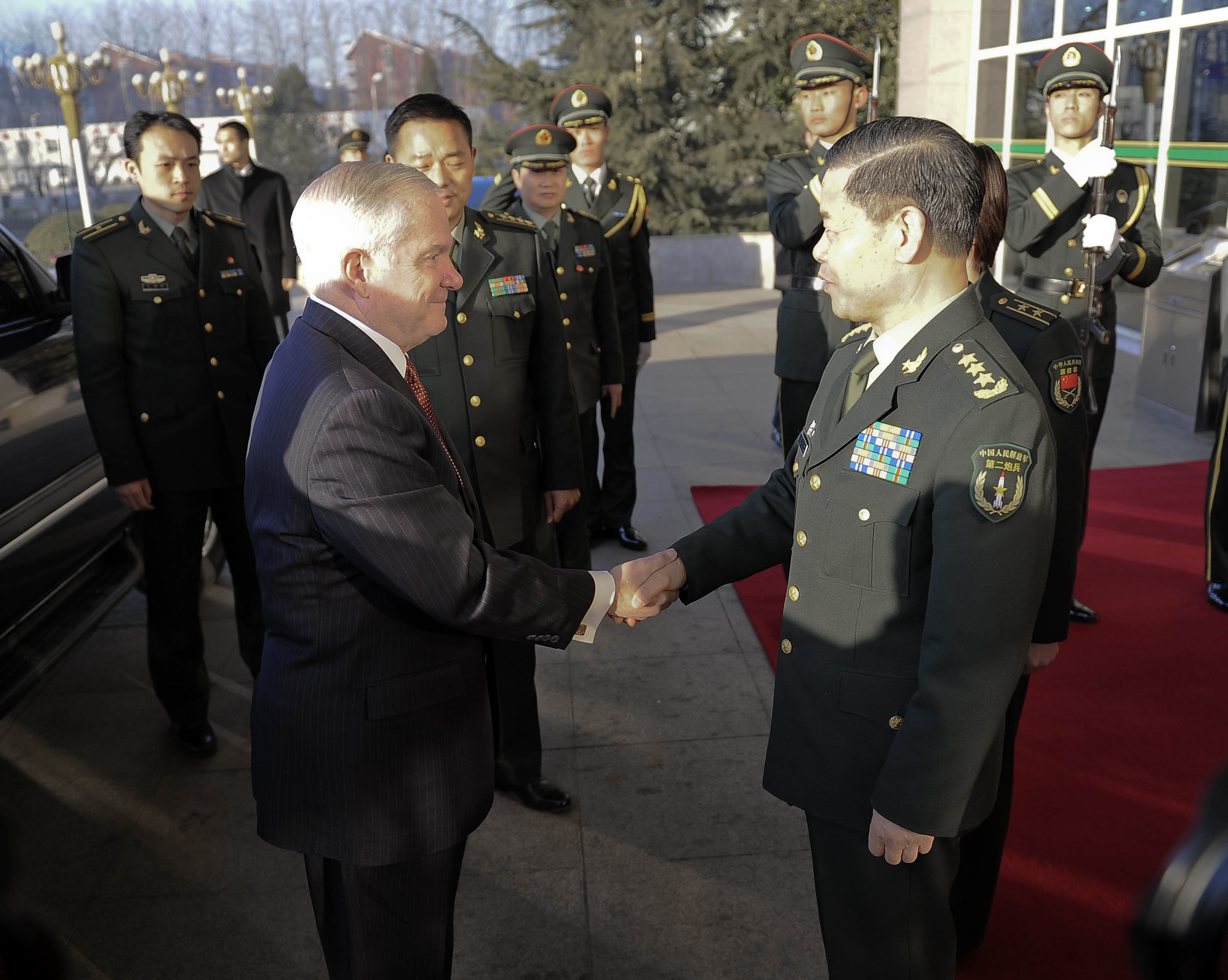 Secretary of Defense Robert M. Gates is greeted by Chinese Commander, 2nd Artillery Group Gen. Jing Zhiyuan at their facility in Qinghe, China, on Jan. 12, 2011. Gates wrapped up a 4-day trip to China by visiting the People's Liberation Army 2nd Artillery Group and the Great Wall.